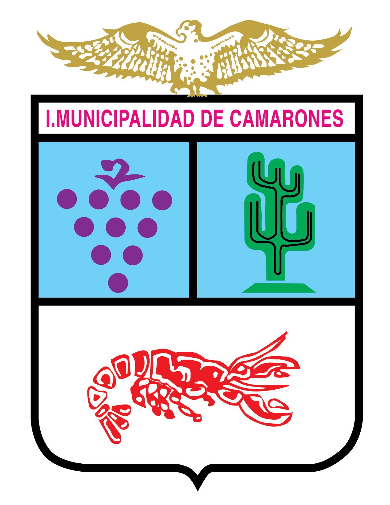 Logo Ilustre Municipalidad de Camarones